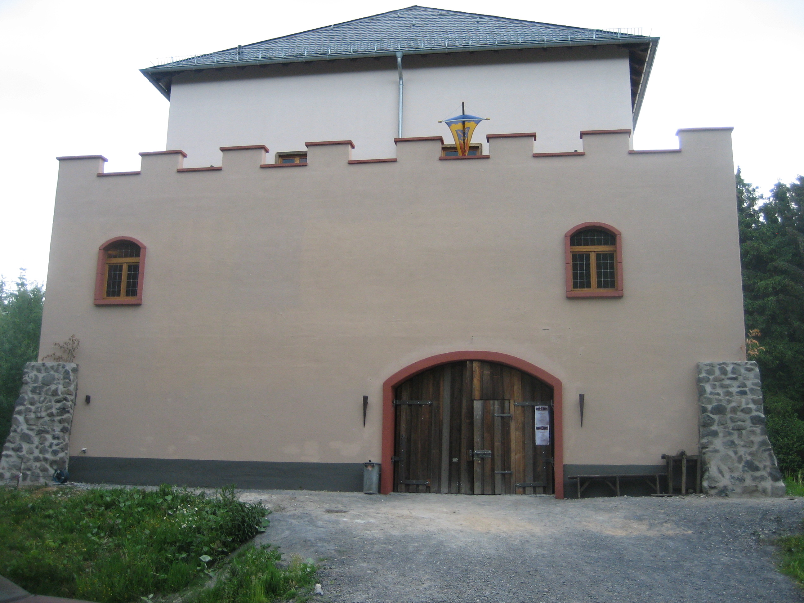 front view with entrance